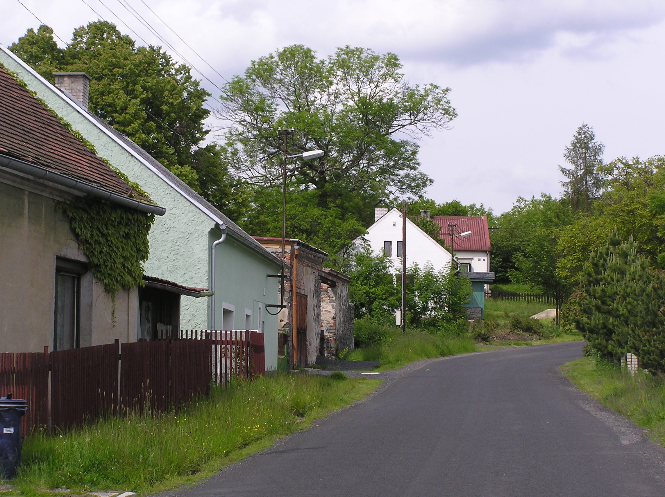 Street in Nová Ves